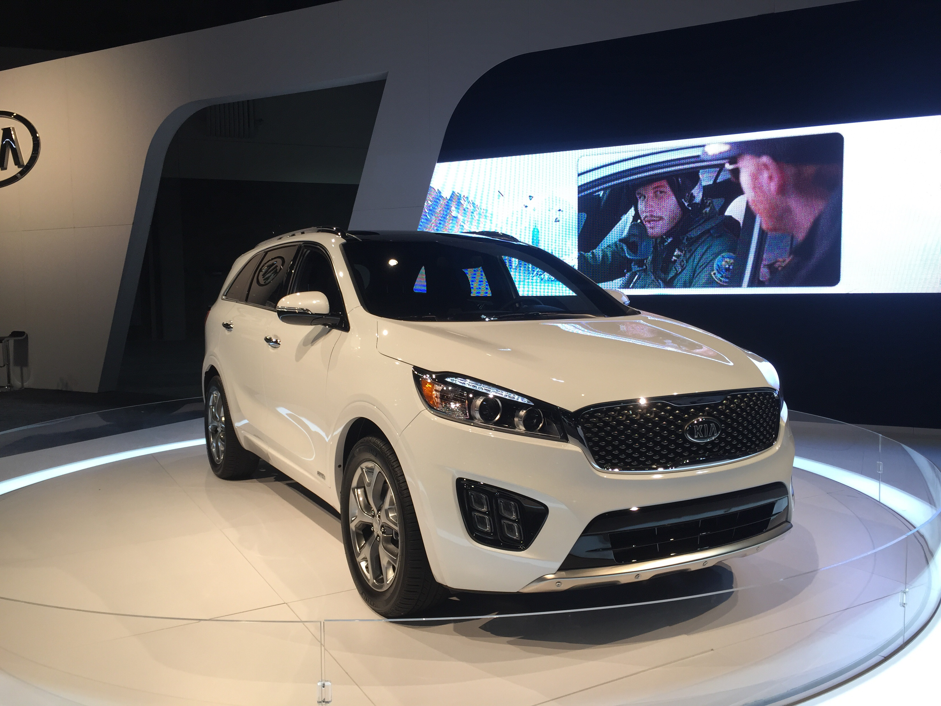 2016 Kia Sorento